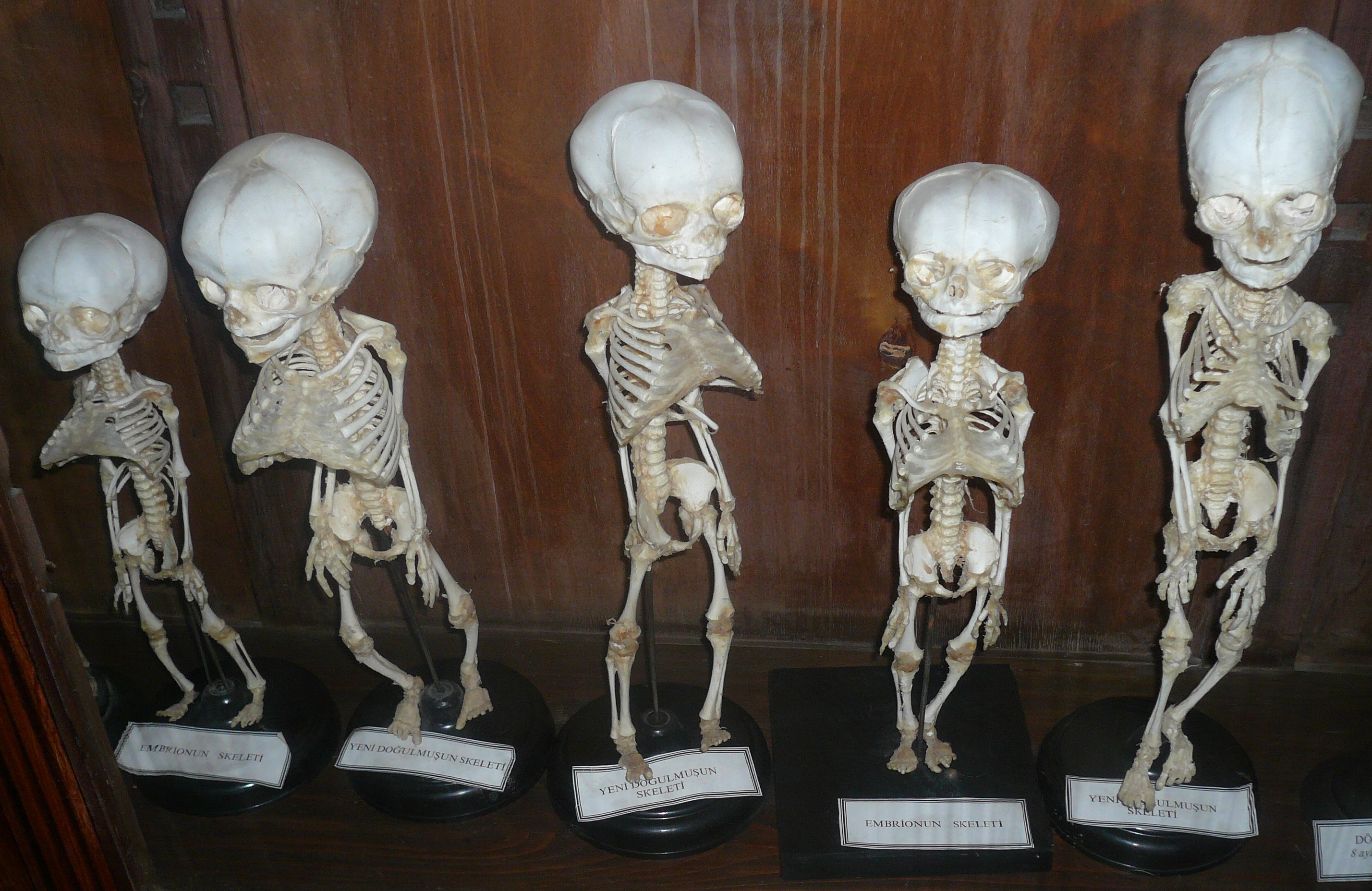 Children skeletons. Anatomical museum, Baku, Azerbaidzhan